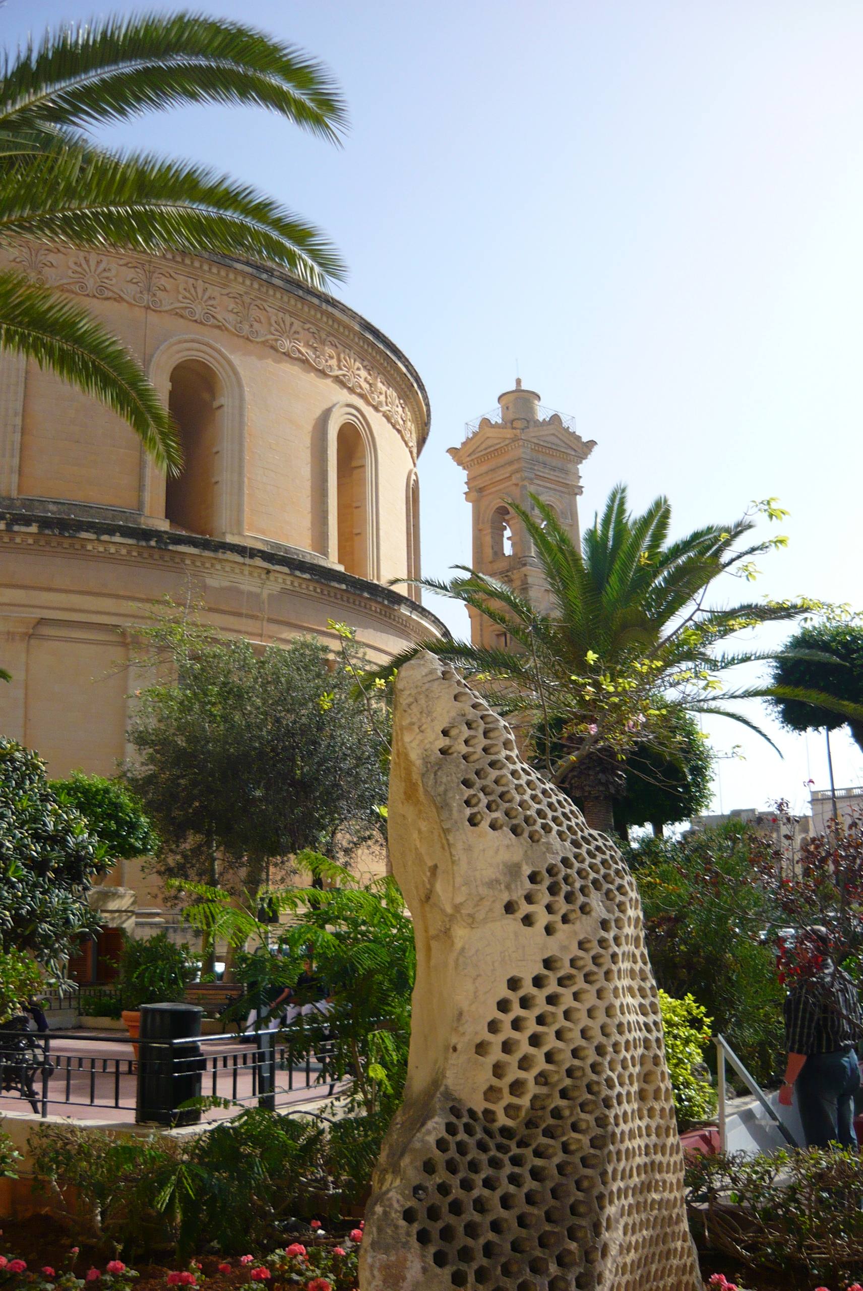 Green Arangements near the Rotunda